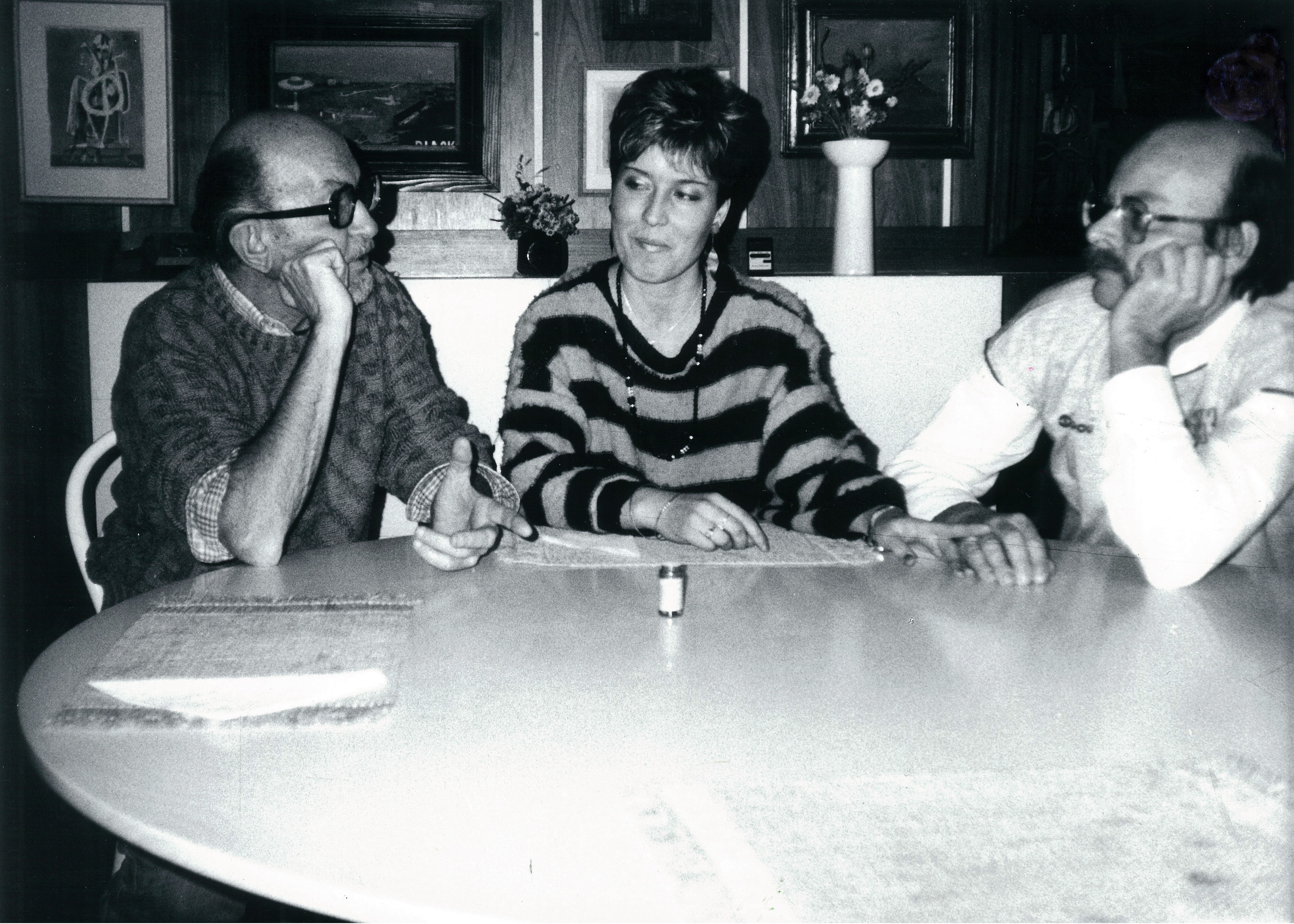 Miloš Macourek and Jaromír Pelc, 1990